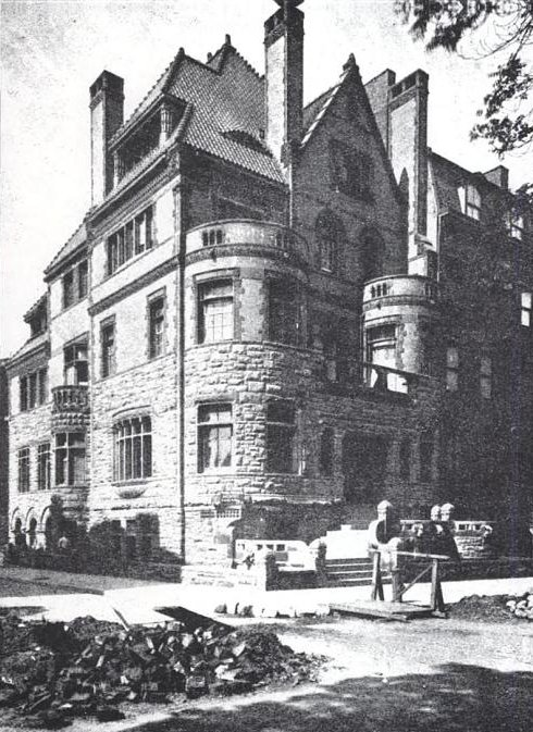 The Herman Behr mansion as it originally looked shortly after its completion in 1889.